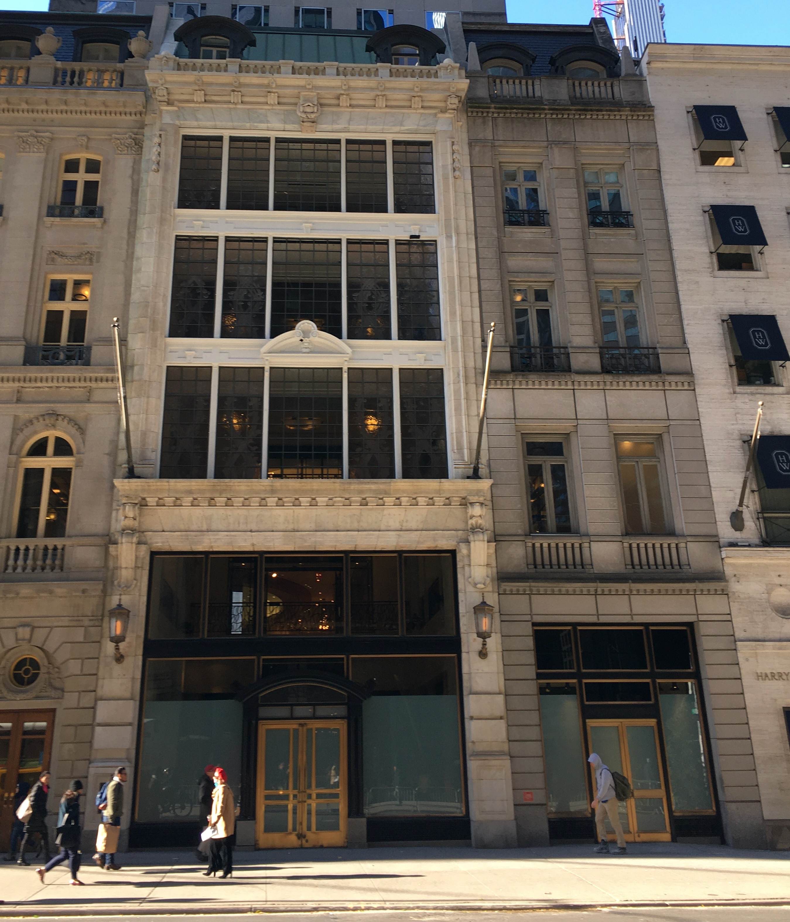 Coty building, Manhattan To the right is 716 Fifth Avenue.